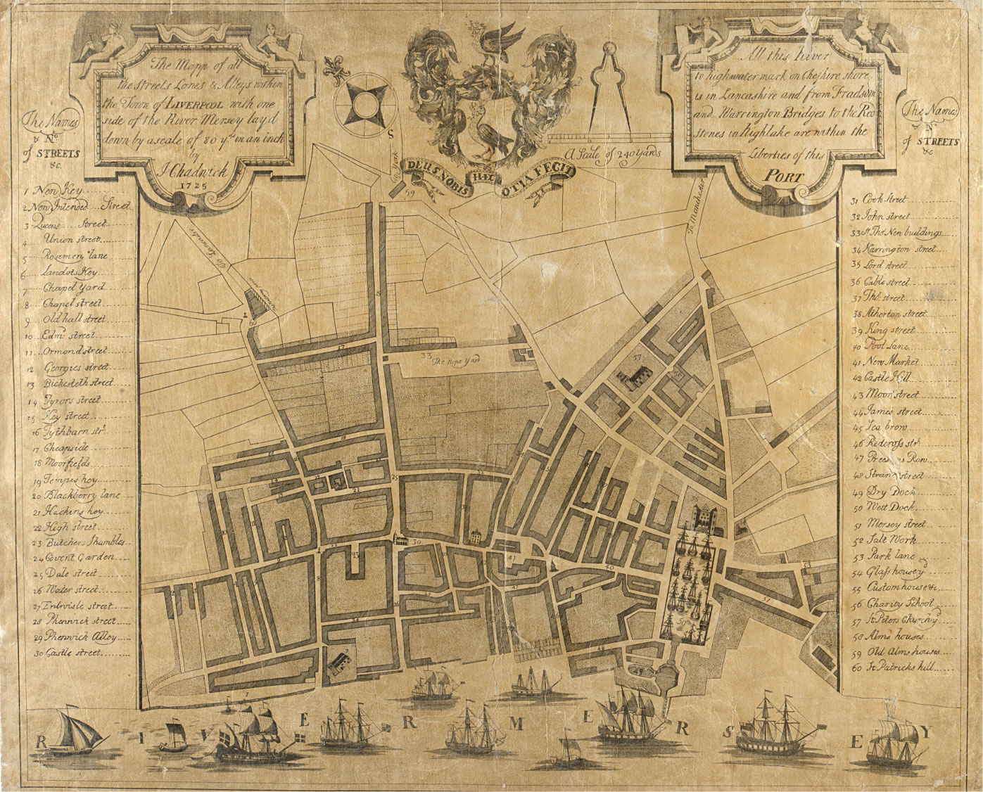 The first official map of Liverpool. In 1725 the Corporation of Liverpool commissioned James Chadwick, a Liverpool Surveyor to make an exact survey of the township. Chadwick was paid £6 to defray part of the cost.